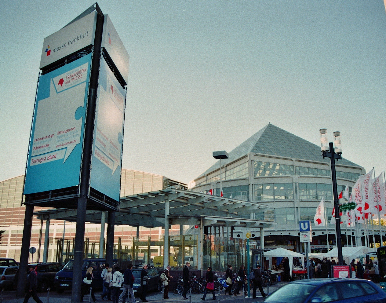 Frankfurt Book Fair (Frankfurter Buchmesse) 2011: the fair's city entrance in Frankfurt am Main, Hesse, Germany.